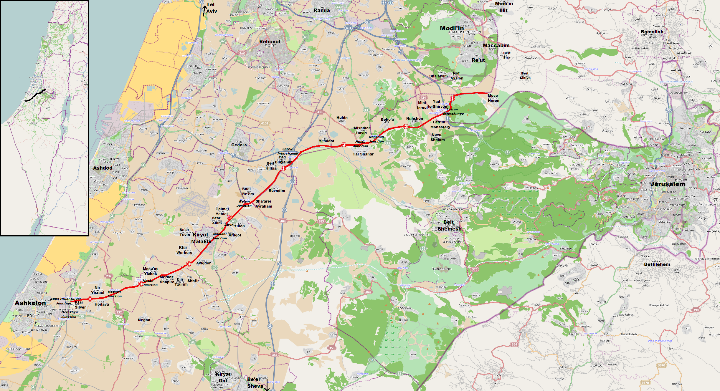 Israel Highway 3 (highlighted in red)